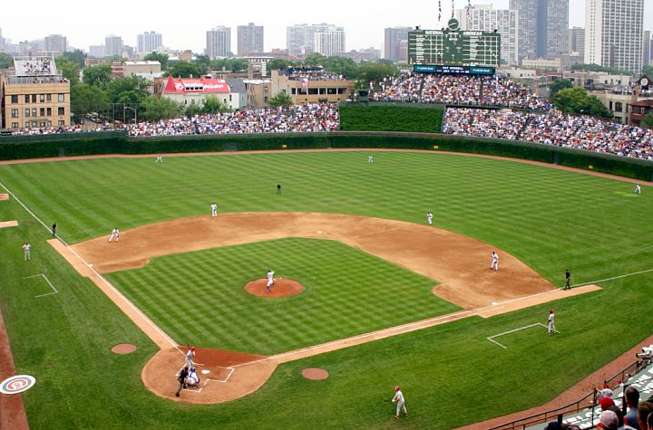 Wrigley Field, Chicago, 7/30/2004, by Rick Dikeman ==File history== 02:54, 29 July 2006 . . Fumo7887 . . 720×475 (83,293 bytes) (Reverted to earlier revision) 02:53, 29 July 2006 . . Fumo7887 . . 720×270 (47,301 bytes) (Reverted to earlier revision) 09:33, 8 August 2004 . . Rdikeman . . 720×475 (83,293 bytes) 00:57, 5 April 2004 . . Rdikeman . . 720×270 (47,301 bytes) (Wrigley Field, Chicago, 1991, by Rick Dikeman)